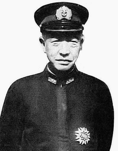 Koichi Shiozawa